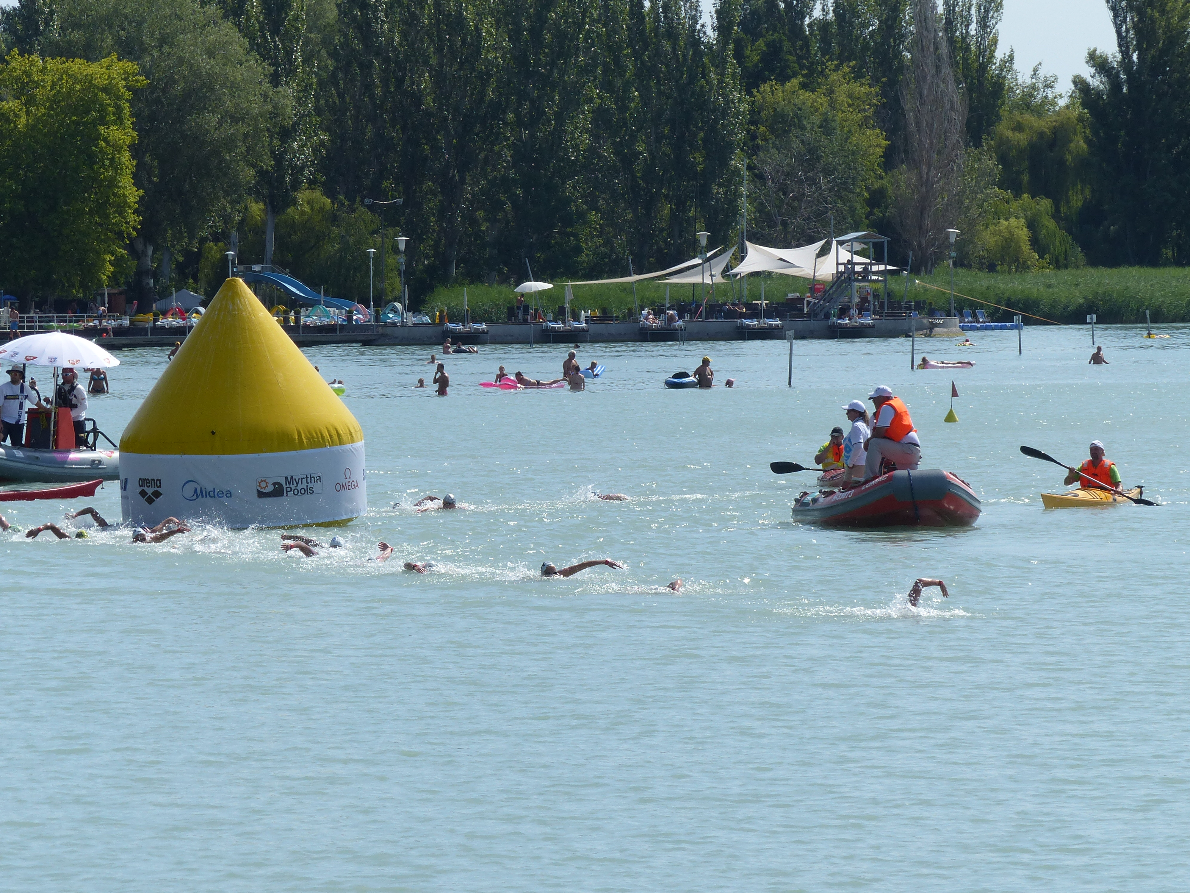 2017 World Aquatic Championships. Budapest - Balatonfüred. Taken on the 21st of July, 2017. Balatonfüred, Hungary, Central Europe. Open water swimming.